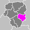 A map of the arrondissement of Ussel (Corrèze)